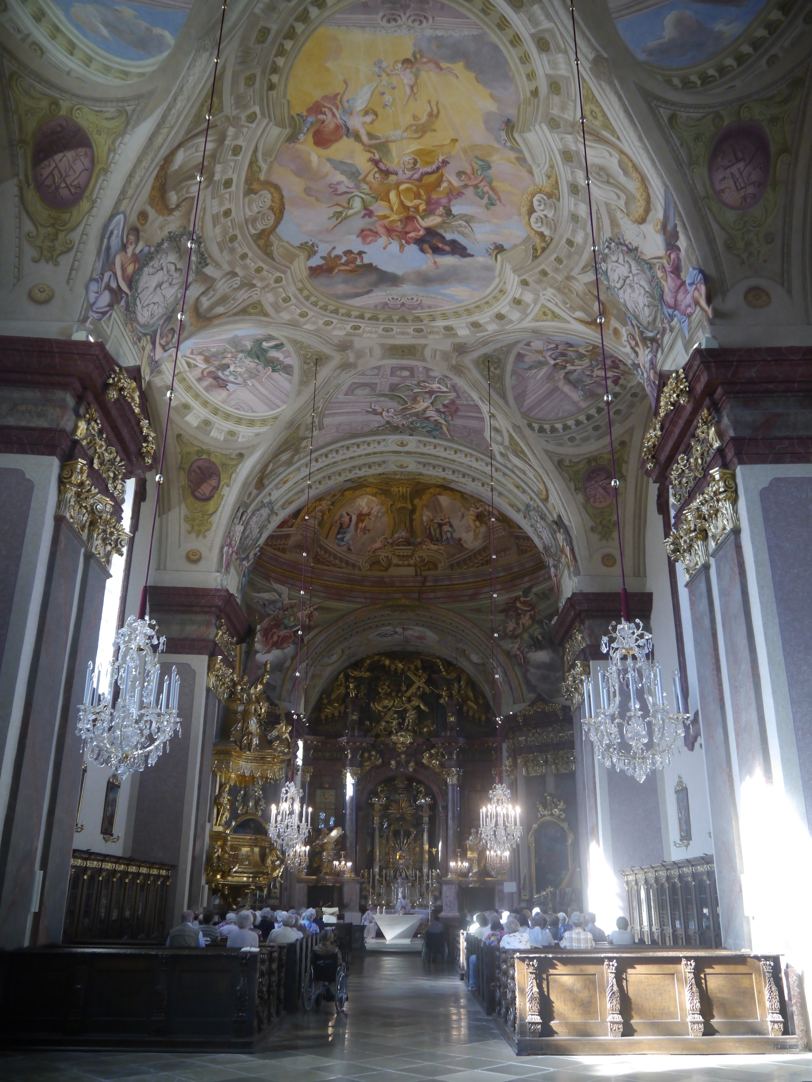 Nave of Maria Taferl Pilgrimage Basilica, Maria Taferl